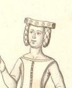 Jeanne de France